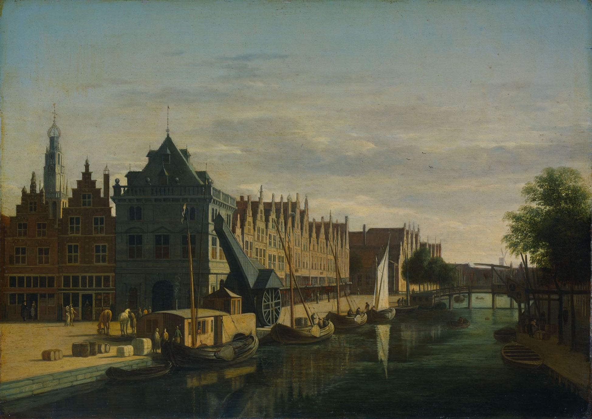 View on the Waag (weighing house) on the Spaarne river in Haarlem. On the wharf a crane is standing, while in the water a number of beurtschepen are moored. Left in the distance the tower of the Bakenesserkerk is visible.